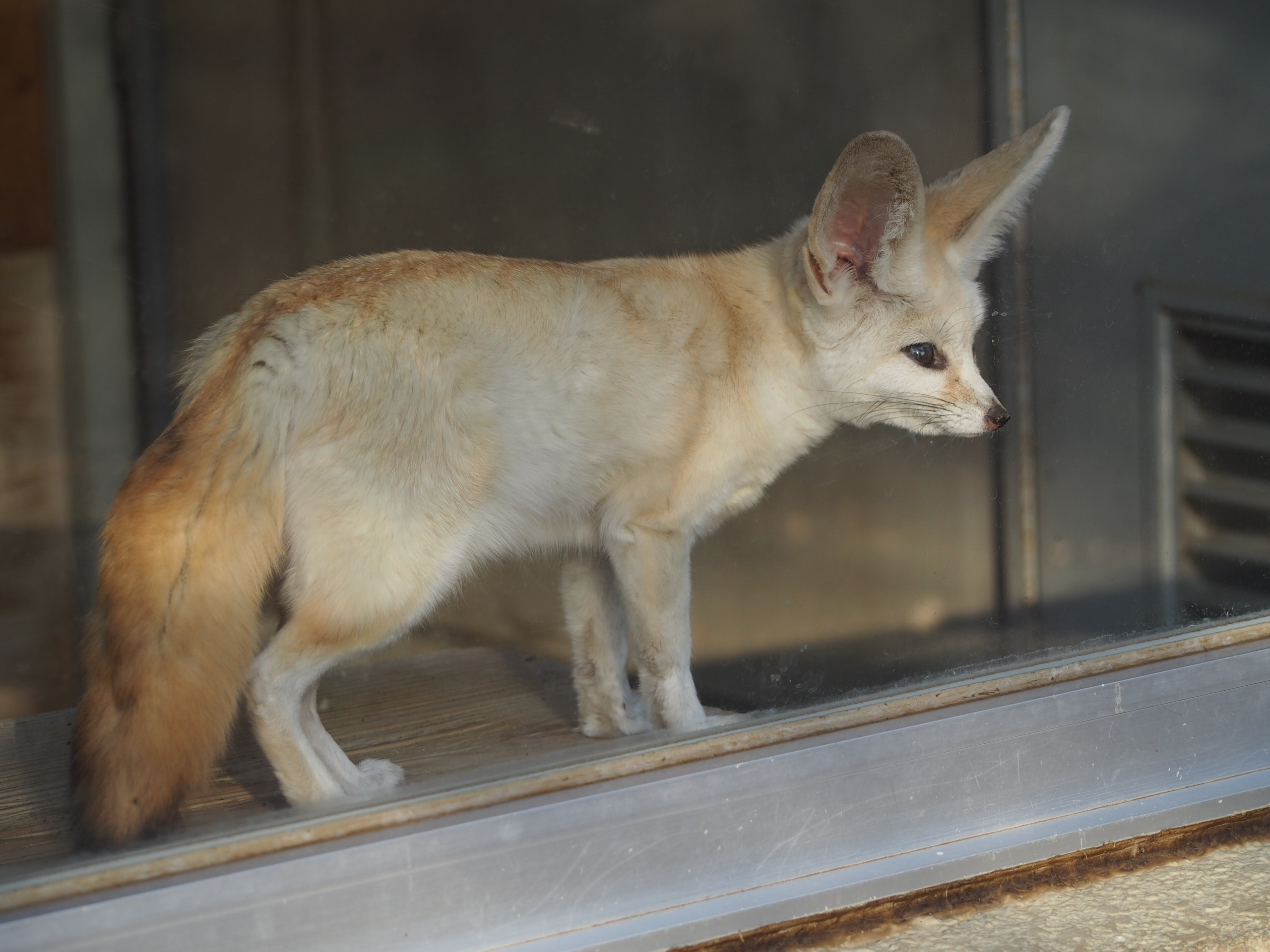 Fennec fox (Vulpes zerda) in Inokashira Park Zoo, in Mitaka, Tokyo, Japan.